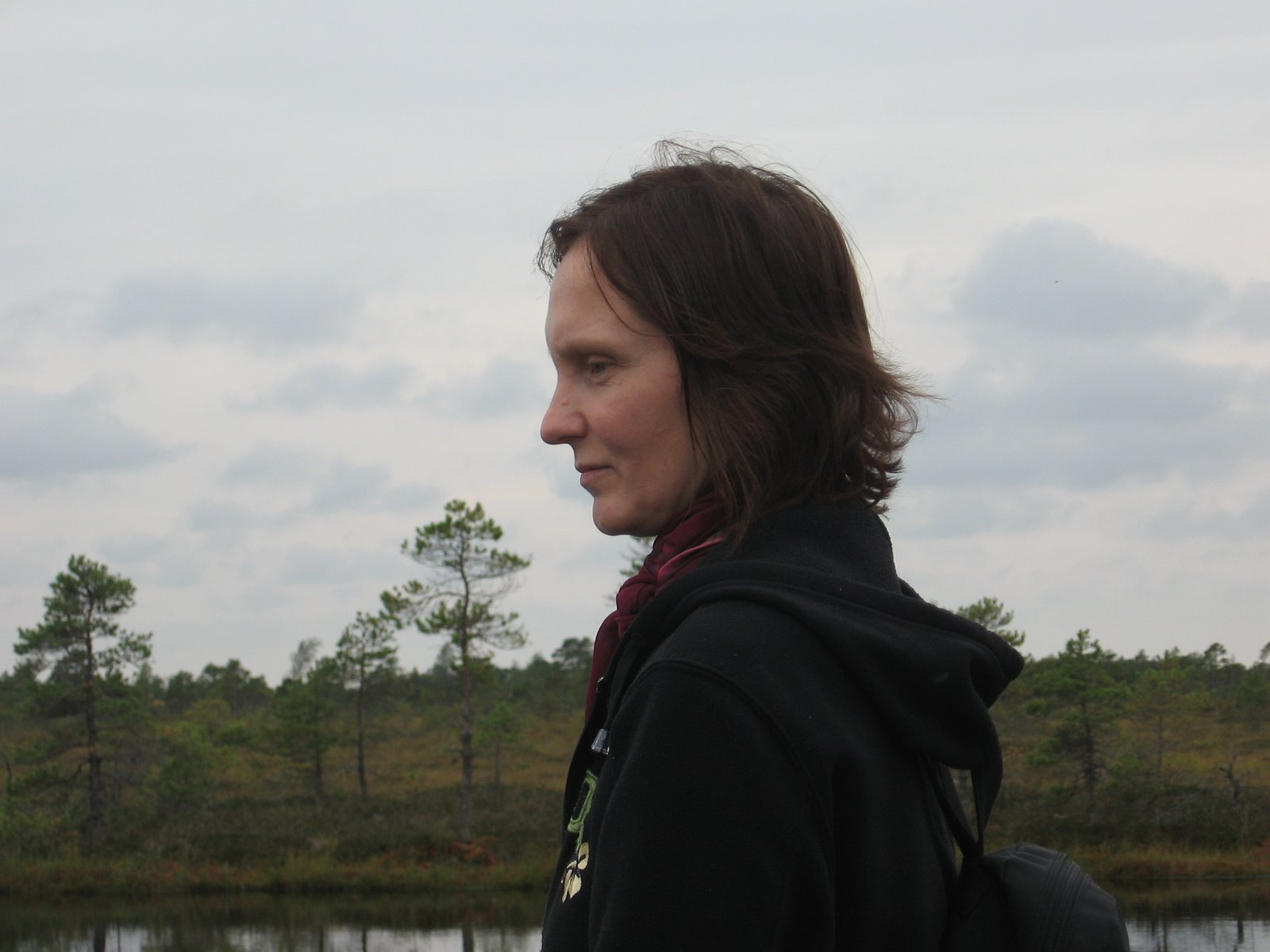 Virge Joamets